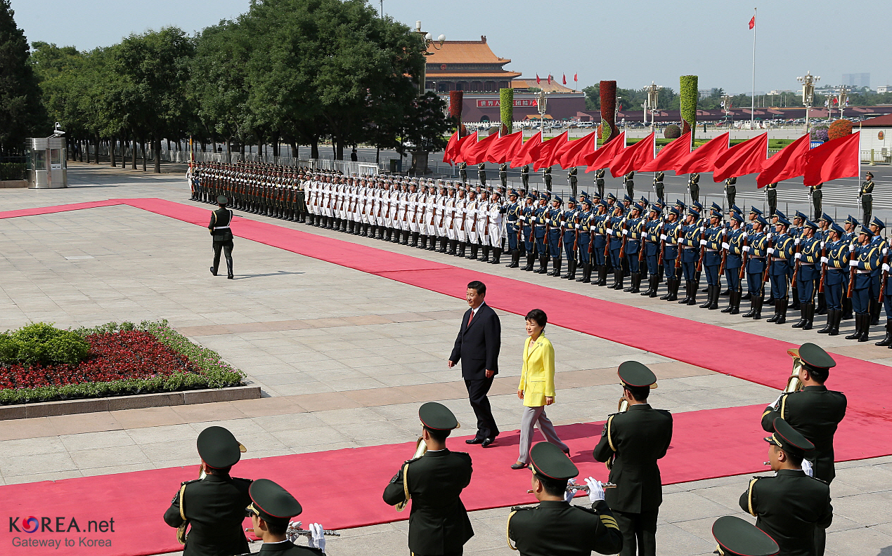 President Park Geun-hye and Chinese President Xi Jinping inspect the honor guard jointly composed of the Chinese army, navy, and air force in front of the Great Hall of the People in central Beijing 2013. 06. 27. Photo=Cheong Wa Dae (Related Article) ‘President Park holds 1st Korea-China summit in Beijing’ Presidential trip to reshape future vision of Seoul-Beijing ties 중국 국빈방문 중인 박근혜 대통령이 27일 베이징 인민대회당 광장에서 열린 공식환영 행사에서시진핑 중국 국가주석과 함께 중국 인민군 육해공군 합동 의장대의 사열을 받고 있다. 베이징, 중국 사진=청와대 6月27日，中国国家主席习近平在北京人民大会堂东门外广场为到访的韩国总统朴槿惠(左二)举行欢迎仪式。在习近平的陪同下，朴槿惠检阅了中国人民解放军三军仪仗队 - See more at: 人民大会堂东门外广场举办欢迎仪式迎接韩国总统朴槿惠